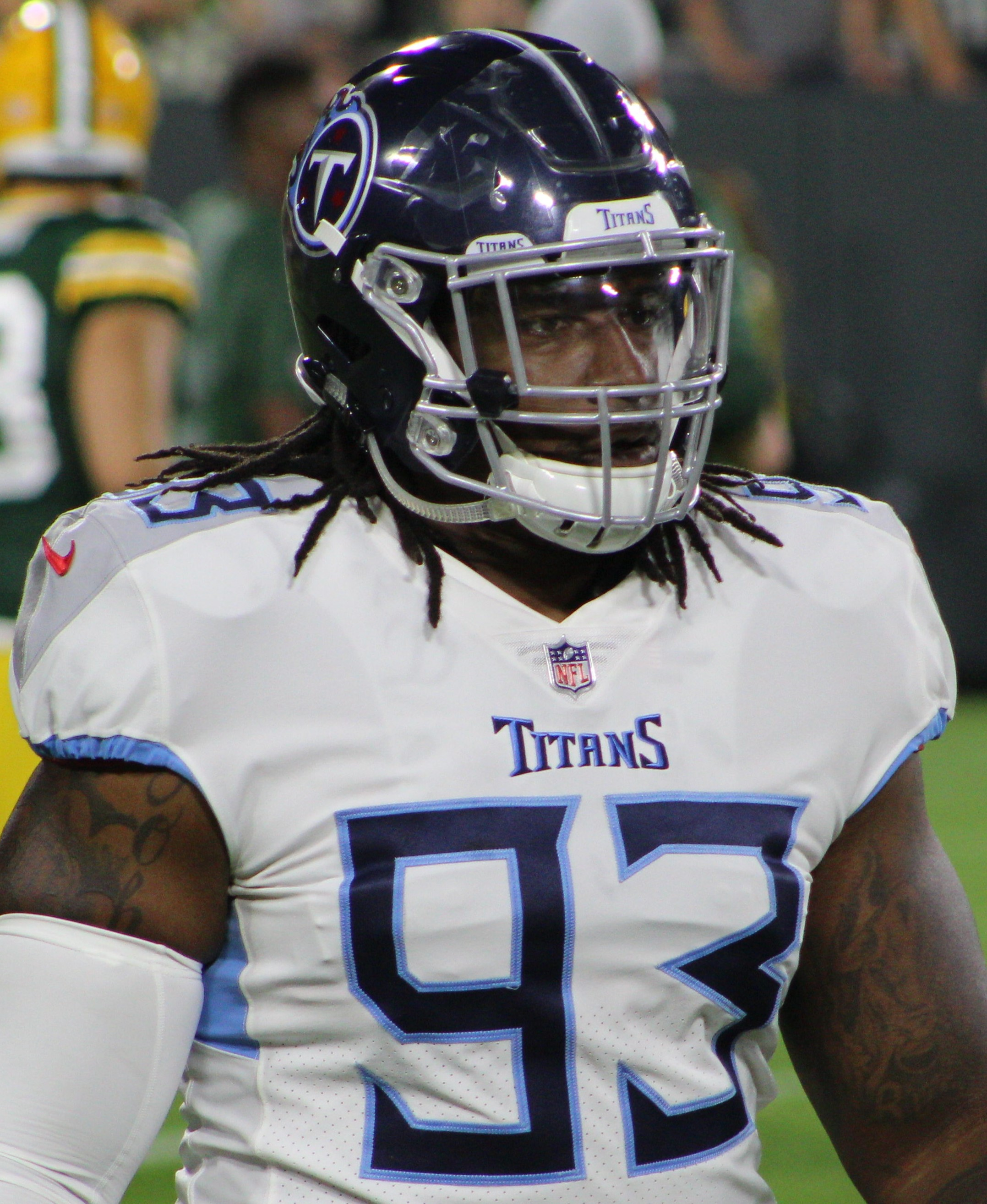 Johnny Maxey, Tennessee Titans at Green Bay Packers (Preseason), August 9, 2018